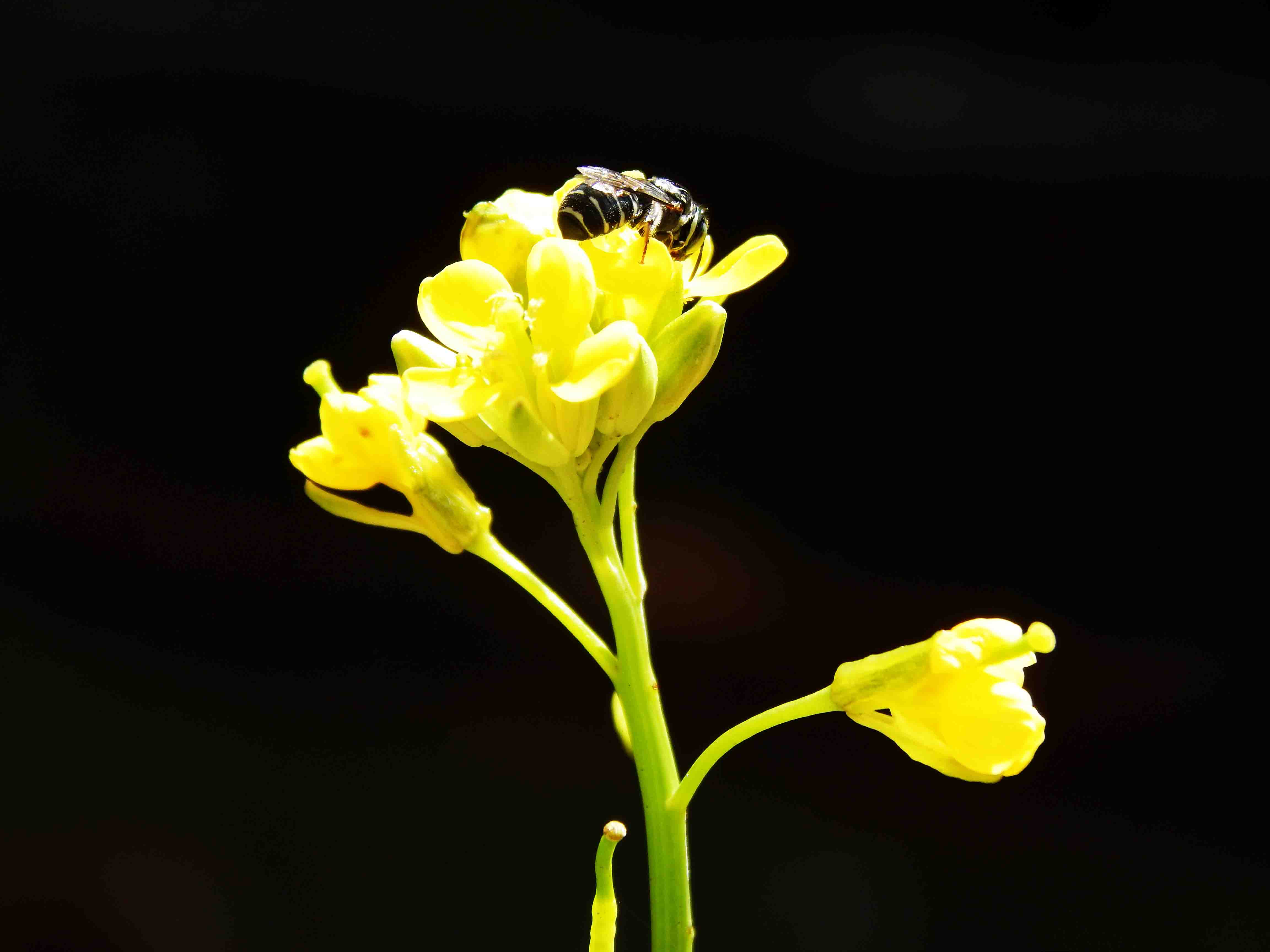 Ceratina sp. collecting honey from mustard flower (Kerala, India)